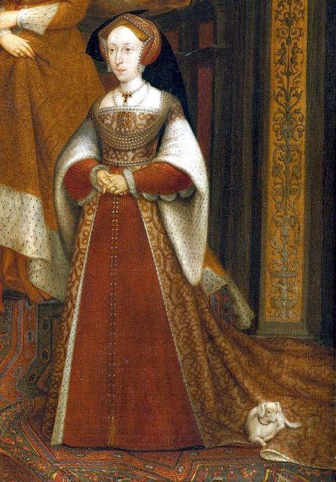 Jane Seymour, Whitehall Dynasty Mural of Henry VIII by Remigius van Leemput circa 17th century after Hans Holbein circa 1536-37.